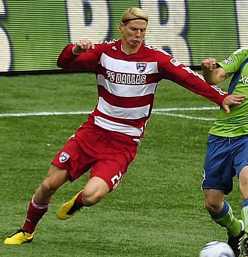 Sounders FC v. FC Dallas This file has been extracted from another file: Seamon v Shea.jpg